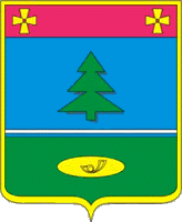 Coats of arms of Yampilskij district (Ukraine)